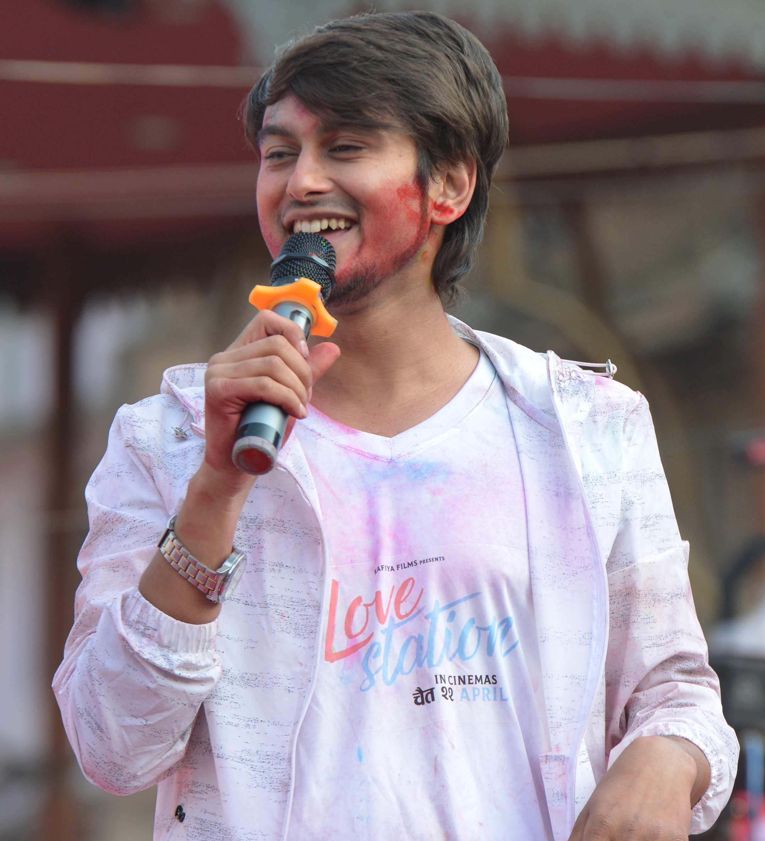 Pradeep Khadka a Nepali actor, model and filmmaker in a Holi Program.